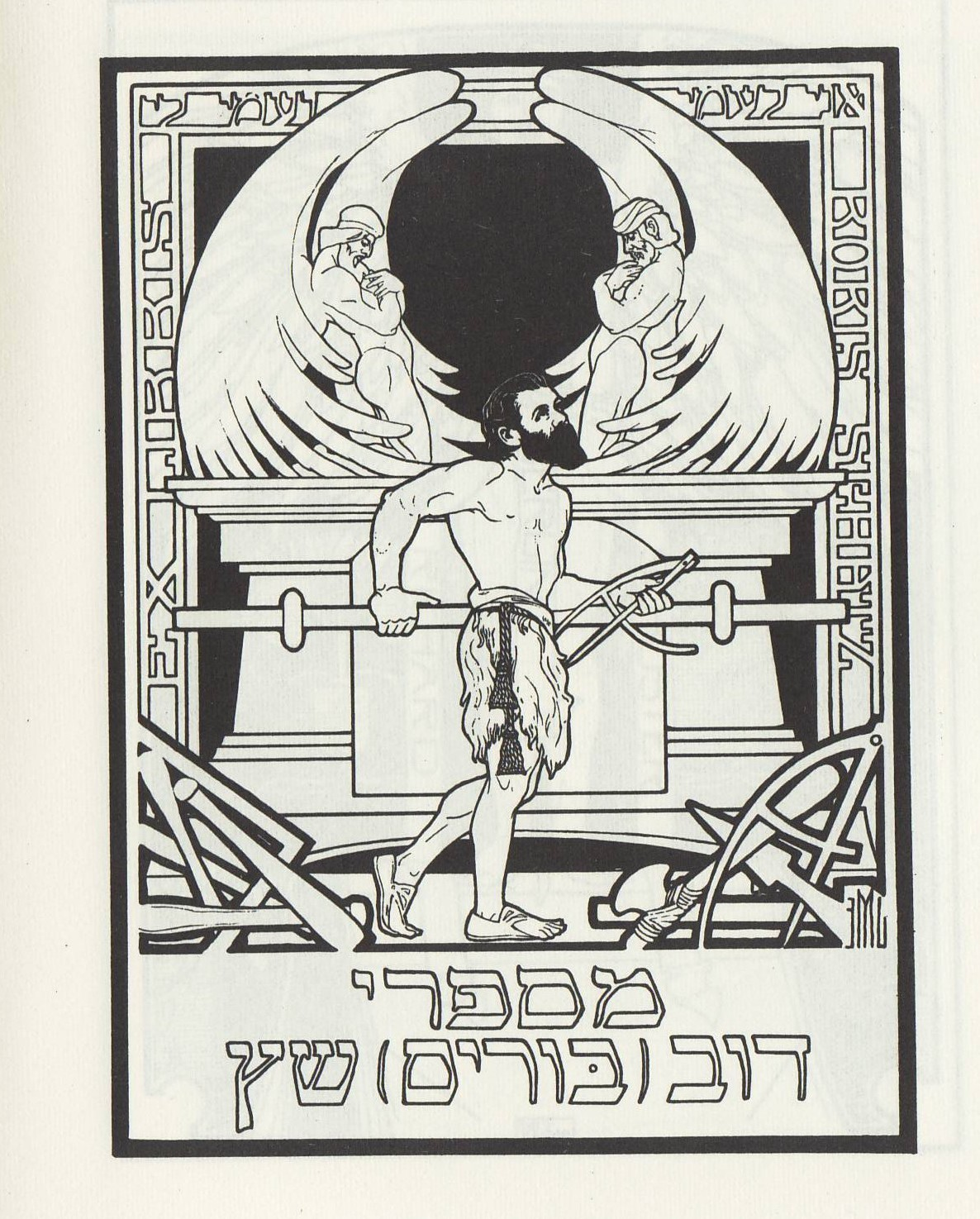 Ex-Libris designed by Ephraim Moshe Lilien.